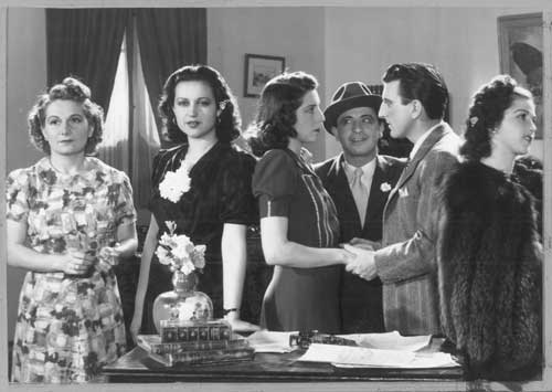 Taken on set of Julio Irigoyen's Canto de amor (1940). Nelly Omar and Carlos Viván are pictured shaking hands.